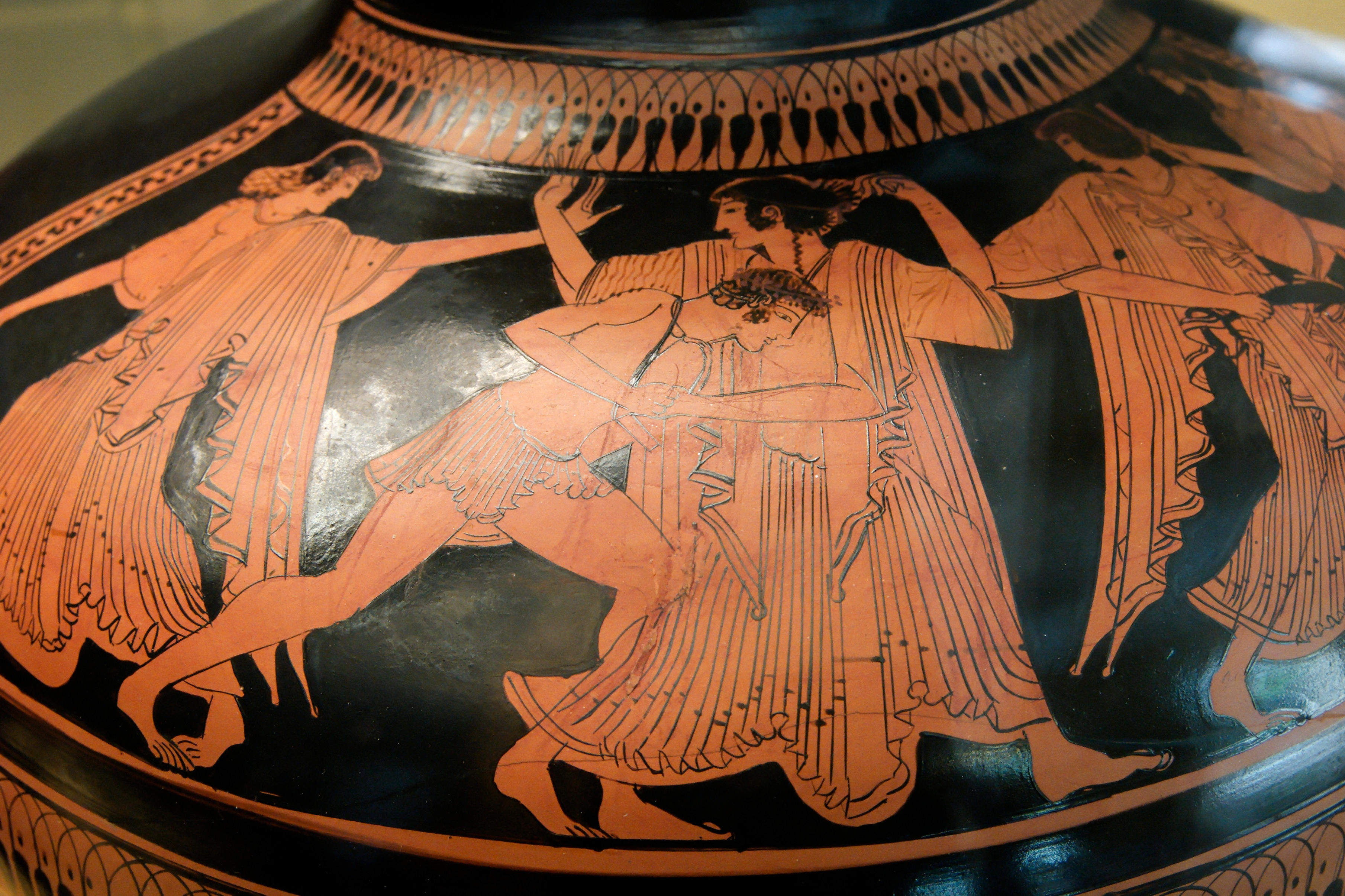 The rape of Thetis by Peleus. Attic red-figure hydria, ca. 470 BC.